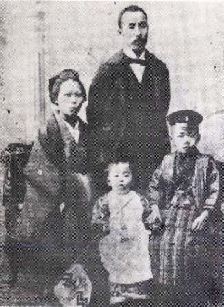 Ohsawa as a child (1901,7 years old) with his family